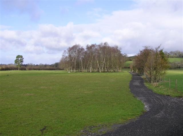 Sidaire Townland, Ballinamallard Located to the west of the hamlet.